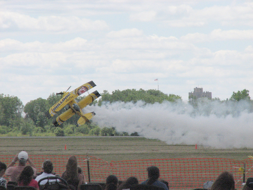 Of the three barn stormers at the 2007 Selfridge Air National Guard base's Air Show, this pilot, (Jim LeRoy - Bulldog), seemed the more experienced. For this stunt he flew at that angle and level above the ground, for at least 3/4 mile!